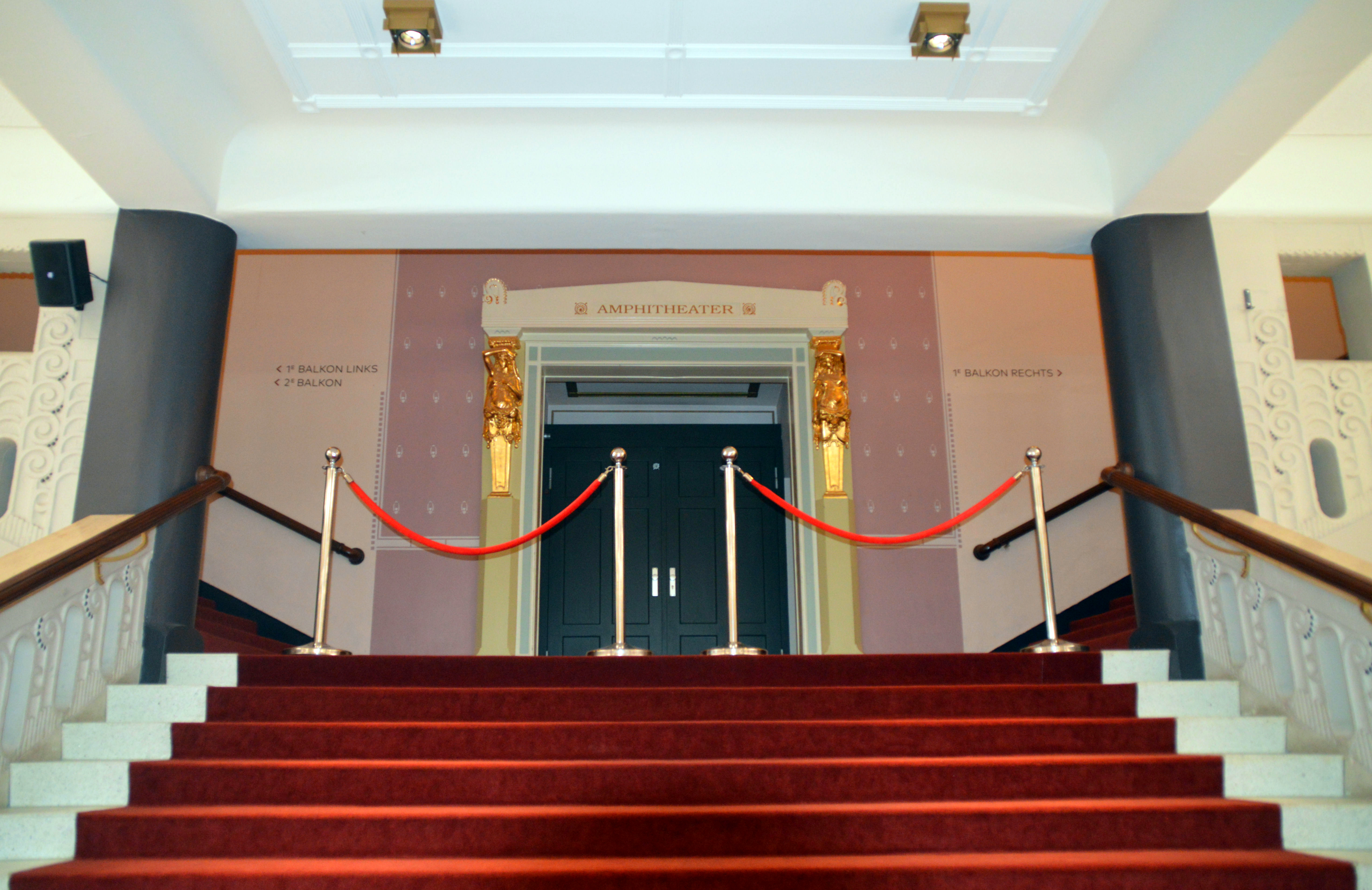 The pediment contains bas-reliefs left and right with personifications of the instrumental and vocal music, depicted by women, signed on the left `E. Everaerts uit. ', Right `Henri Leeuw mcd'.